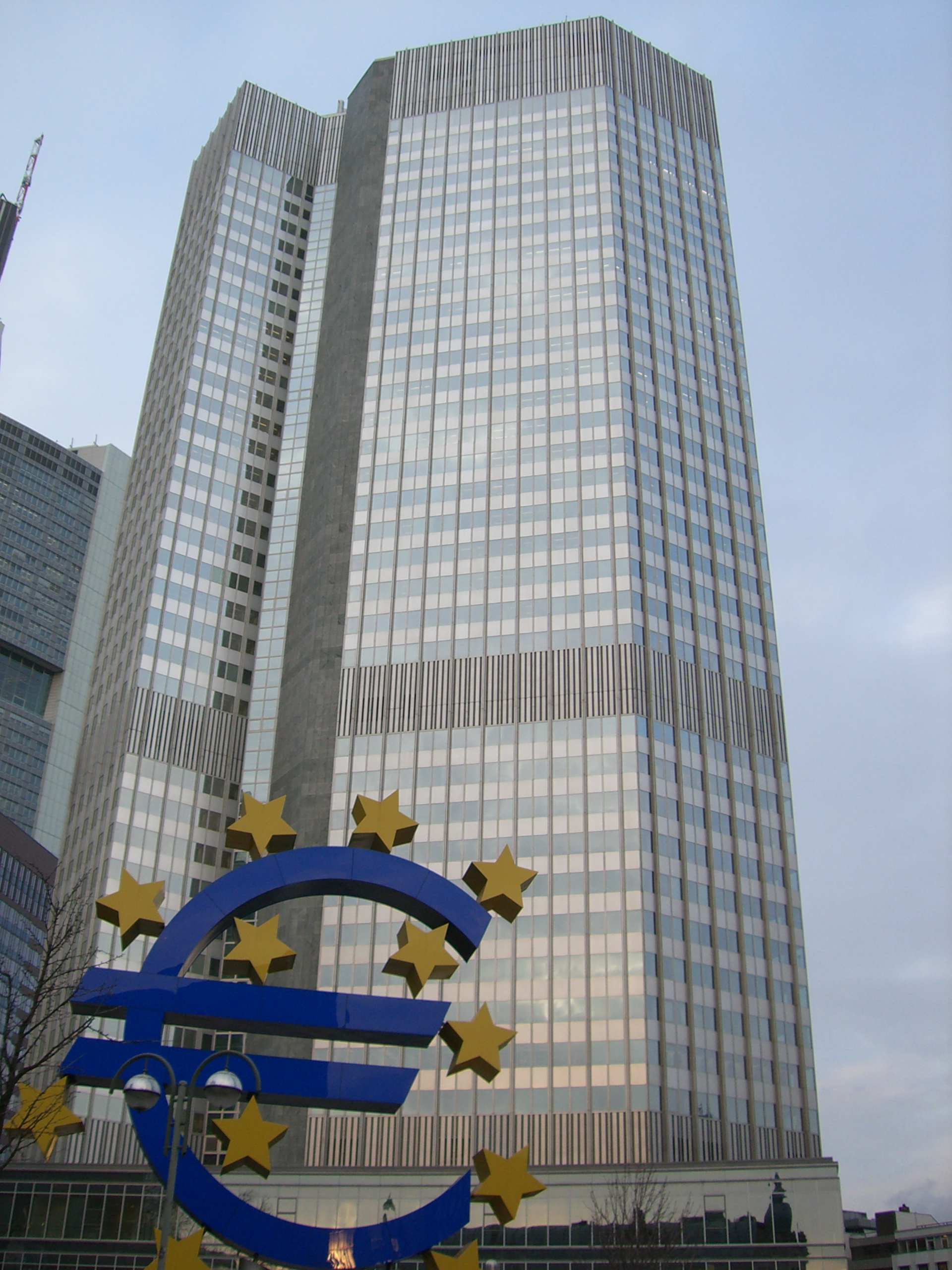 Frankfurt, Germany